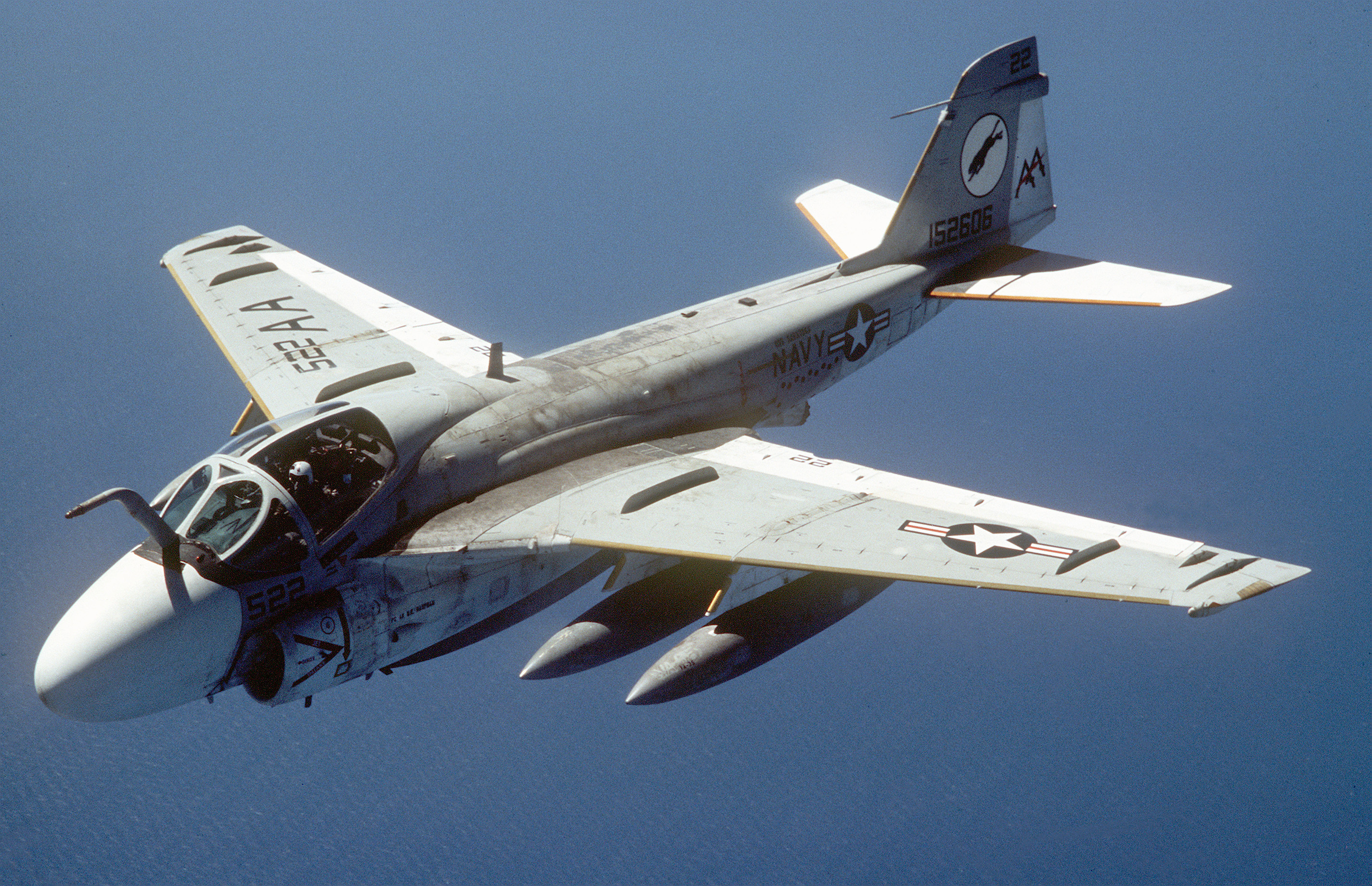 A U.S. Navy Grumman KA-6D Intruder (BuNo 152606) from attack squadron VA-35 Black Panthers in flight in 1990. VA-35 was assigned to Carrier Air Wing 17 (CVW-17) aboard the aircraft carrier USS Saratoga (CV-60) for a deployment to the Mediterranean and the Red Sea in support of operations "Desert Shield" and "Desert Storm" from 7 August 1990 to 28 March 1991.